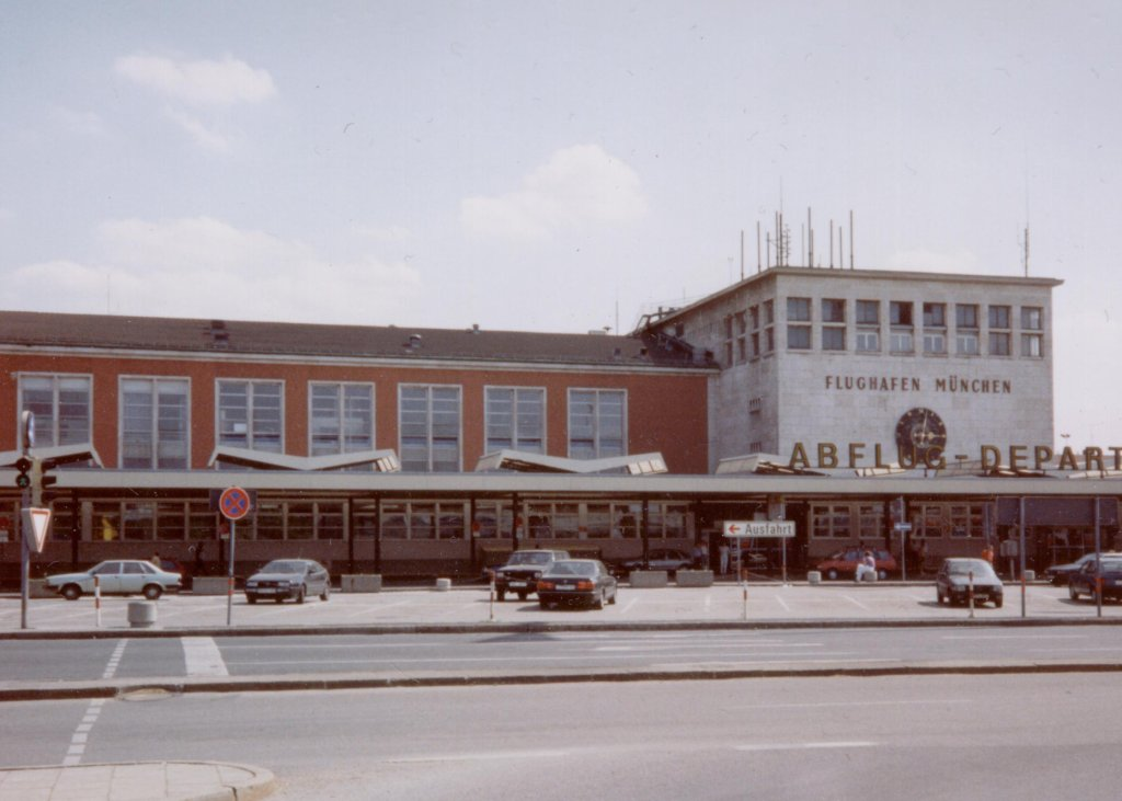 The Munich-Riem Airport, a few days after end of operation